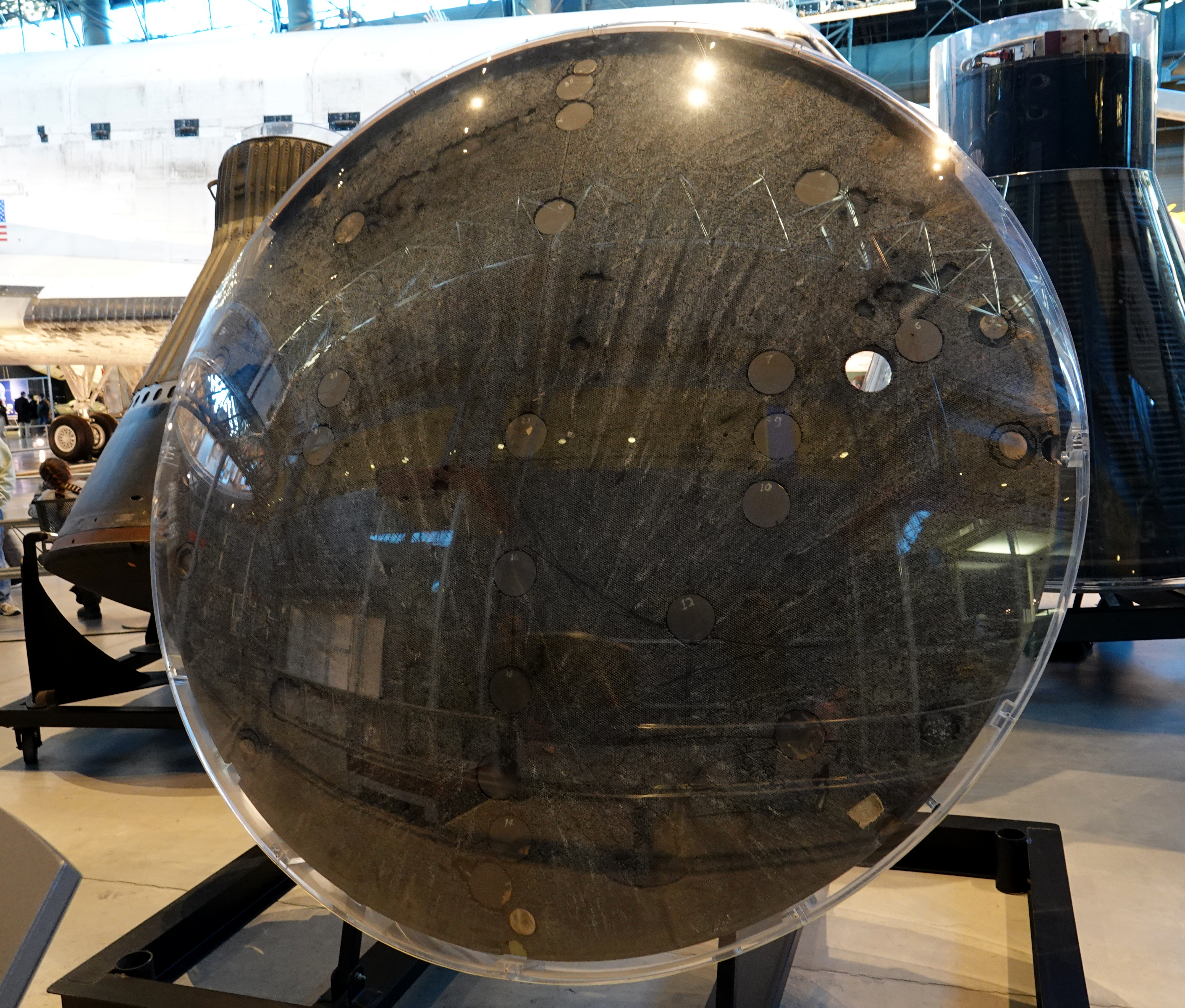 Picture of an ablated Gemini heat shield. The ablative substance of the Gemini heat shield is a paste-like silicone elastomer material, which hardens after being poured into a honeycomb form. It is not known whether this heat shield was used on a Gemini spacecraft for reentry or only scorched in a ground test, perhaps by a rocket engine. The circular marks show where samples were removed afterward for testing, and the resulting holes filled with wooden blocks. In 1970 heat shield manufacturer McDonnell-Douglas gave both of these shields to the Smithsonian on behalf of NASA. Picture taken at the National Air and Space Museum's Steven F. Udvar-Hazy Center in Chantilly, Virginia, USA.